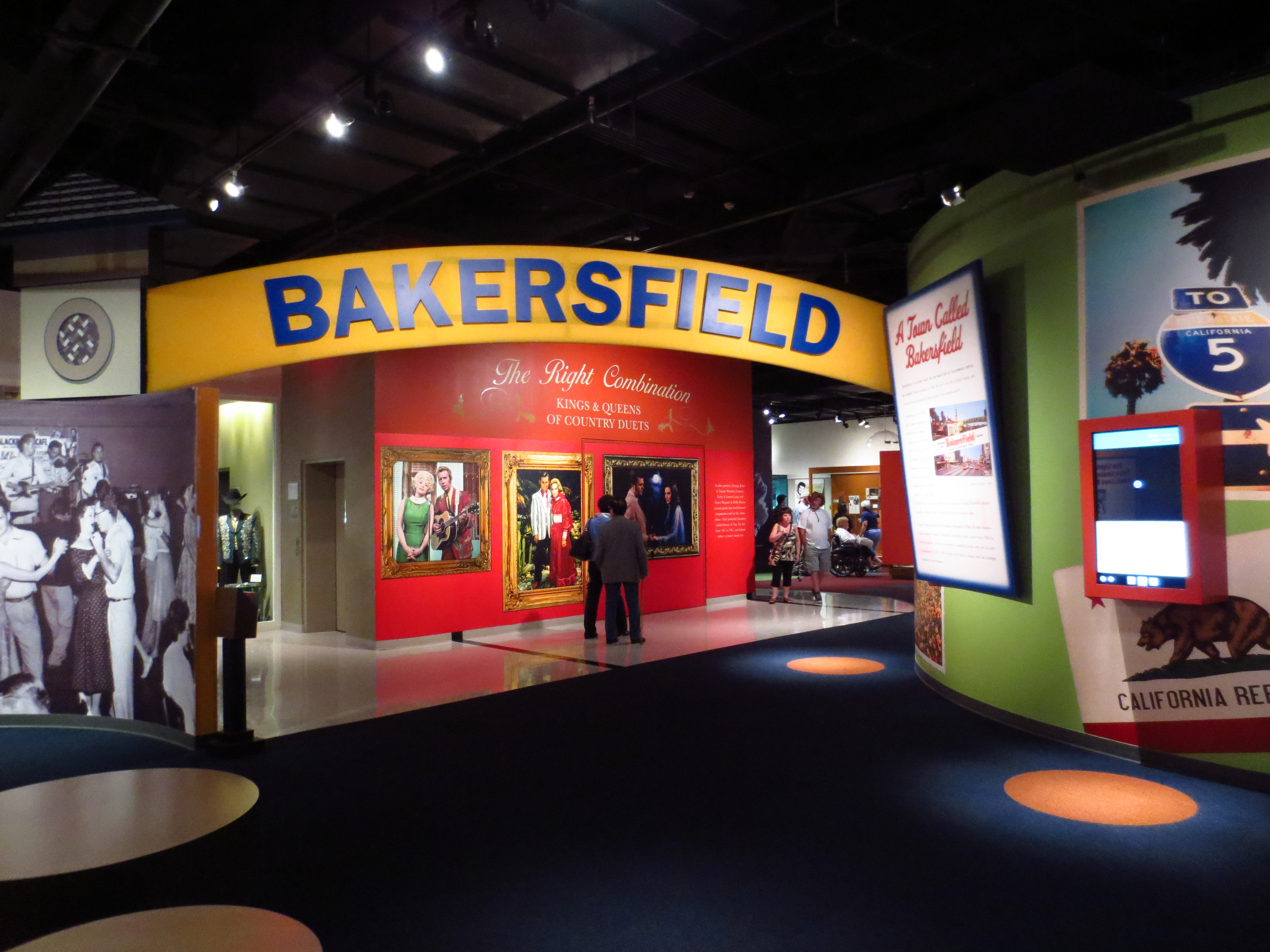 Country Music Hall of Fame and Museum, 2013